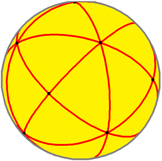 Spherical polyhedron tetrakis hexahedron